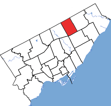 Scarborough-Agincourt in relation to the other Toronto ridings (2015 boundaries)